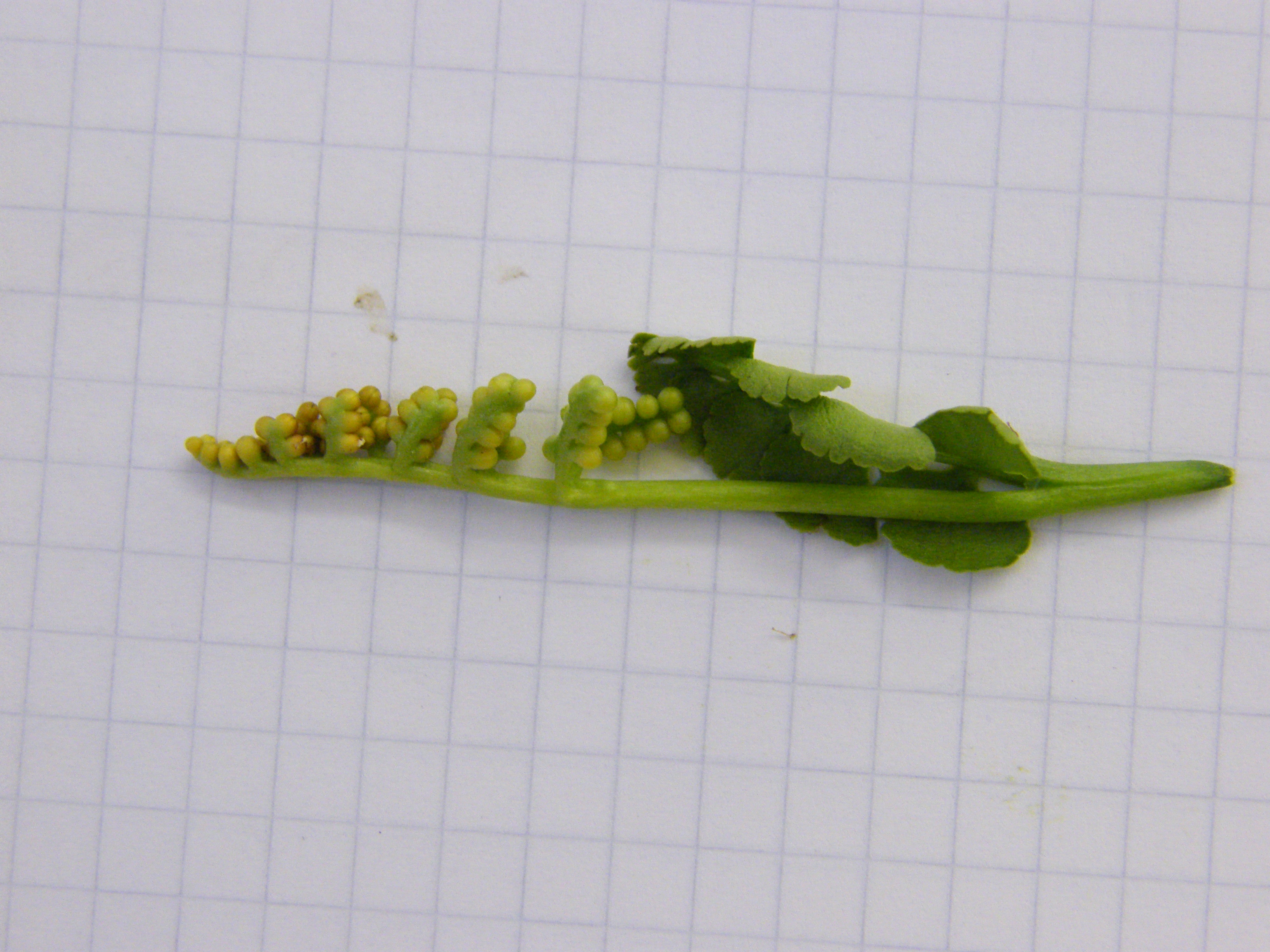 Botrychium lunaria frond; background squares are 5mm across.